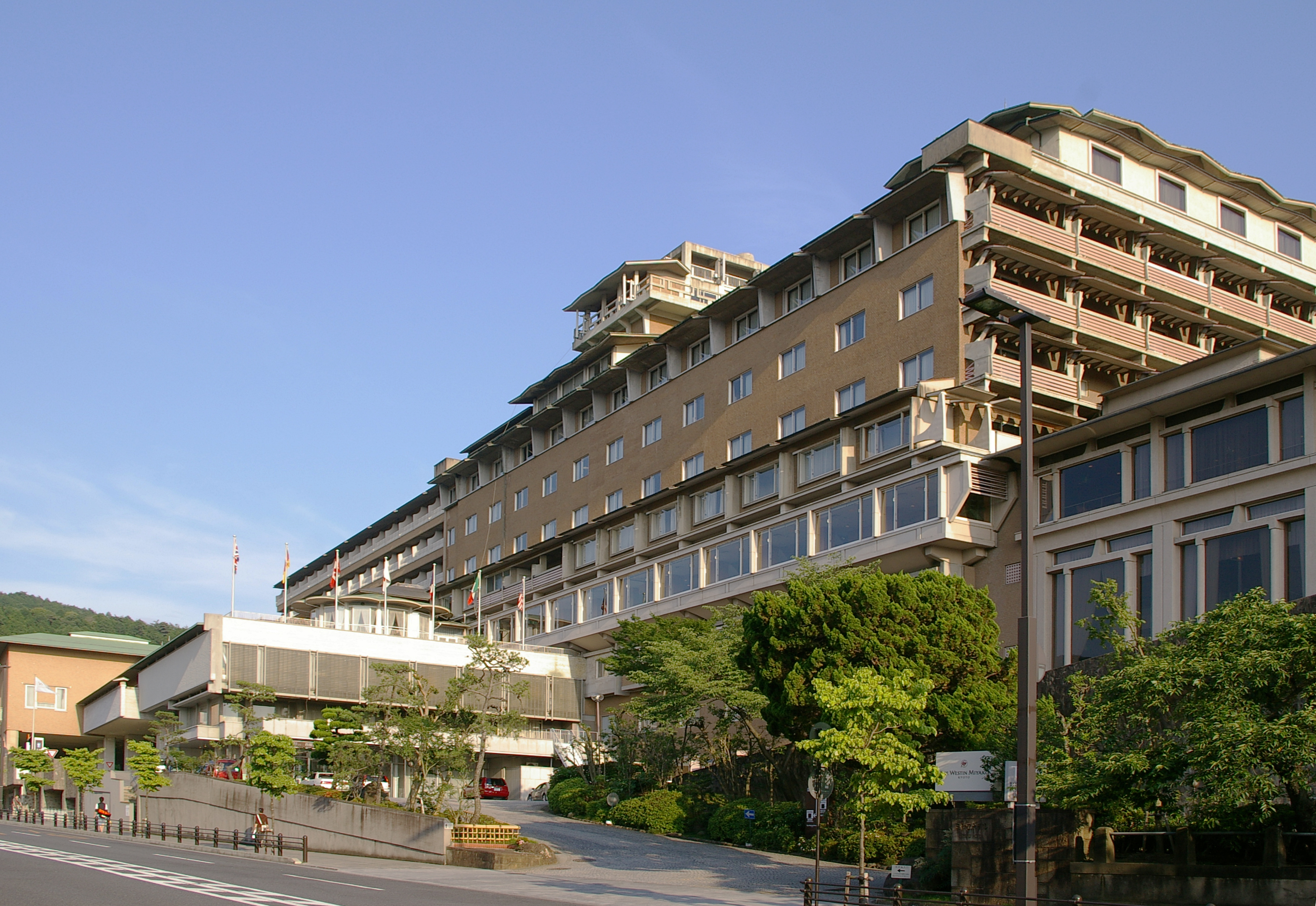 Photograph of The Westin Miyako Kyoto in Higashiyama-ku, Kyoto, Kyoto Prefecture, Japan.